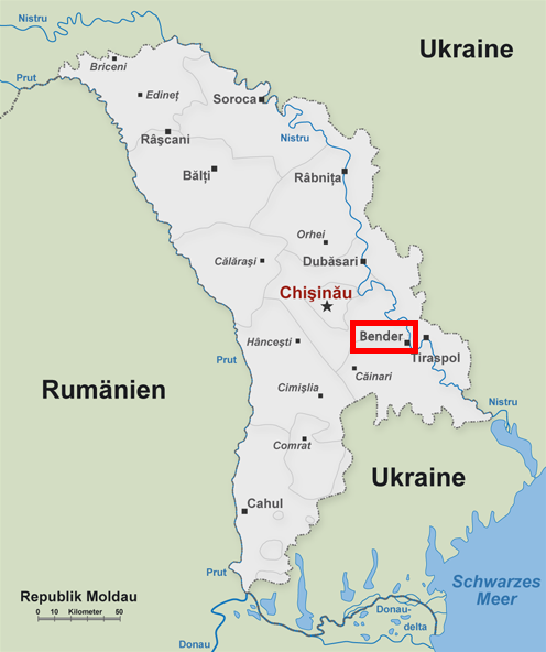 The location of Bendery in Moldova.